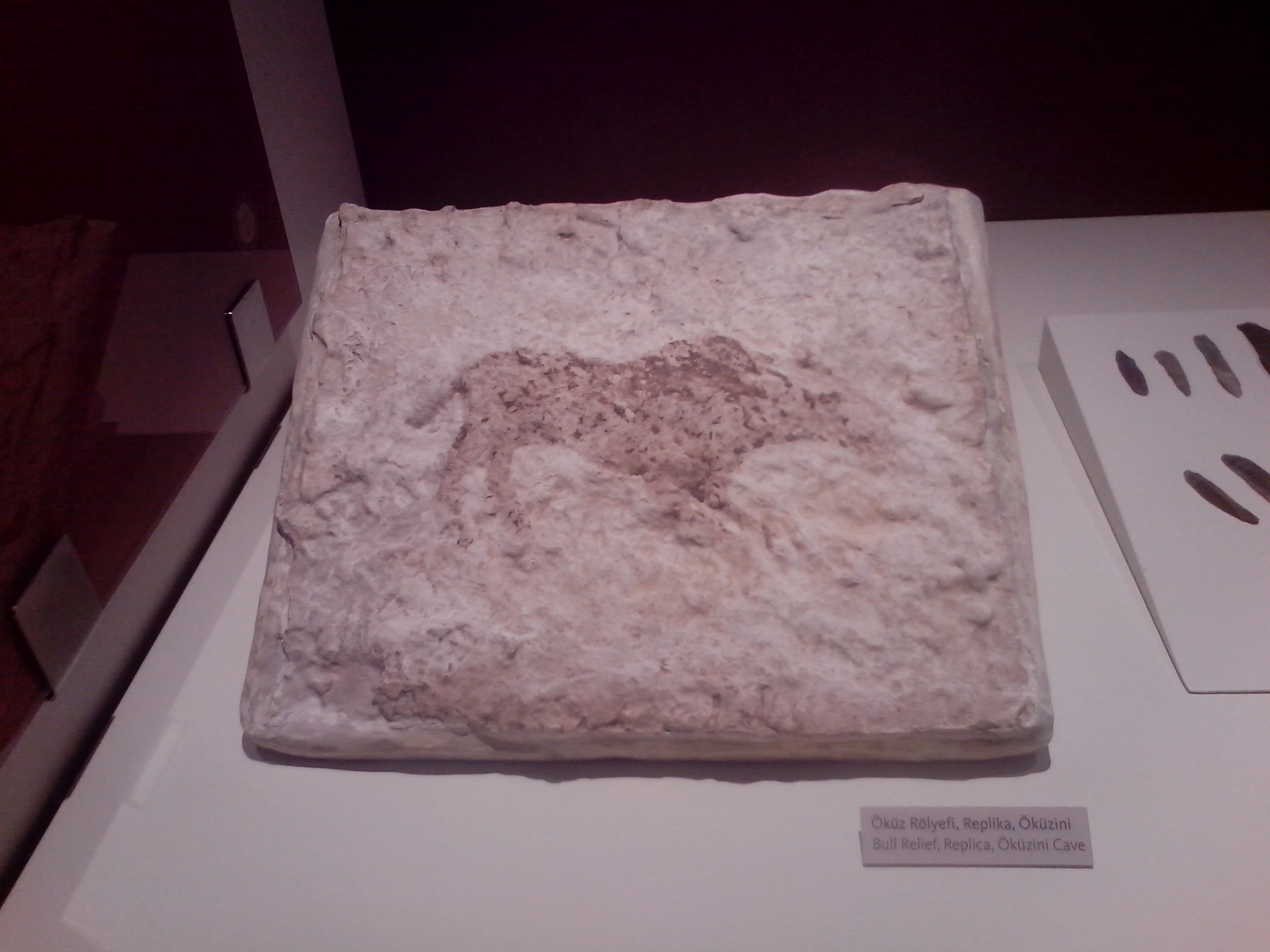 Bull relief from Okuzini Cave which named the cave itself. Bull cave painting